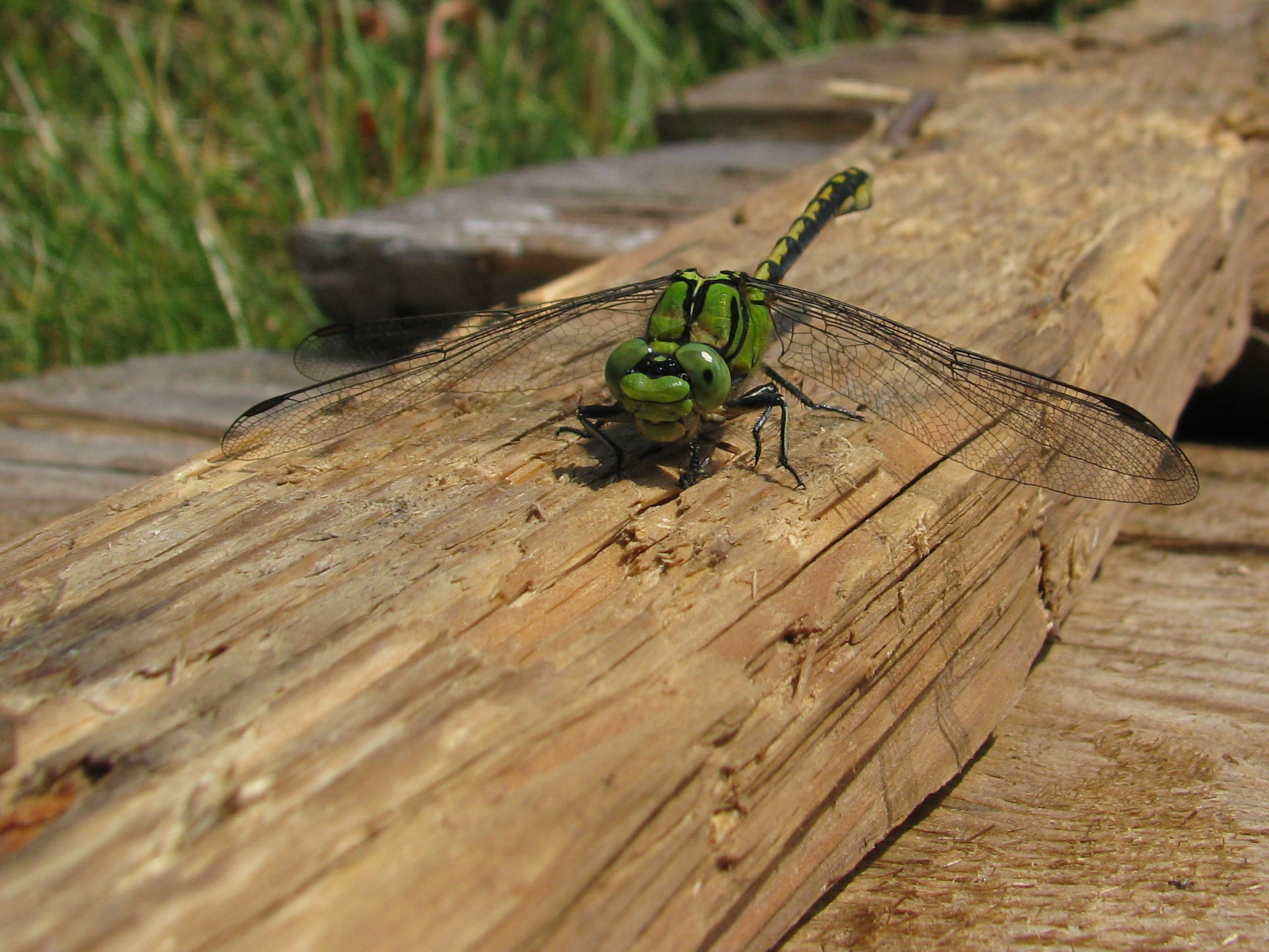 Ophiogomphus cecilia